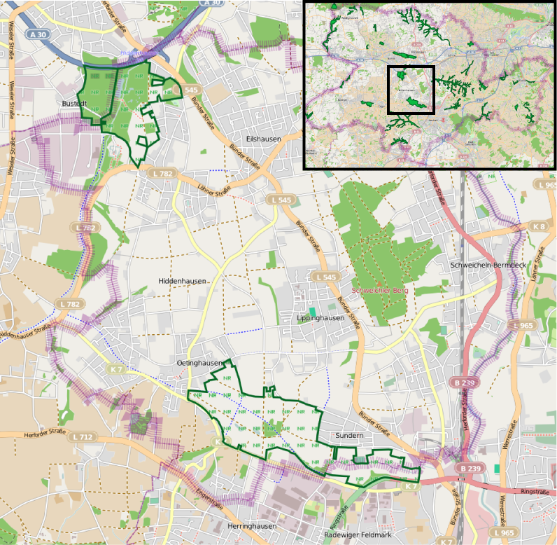 Nature reserves in Hiddenhausen - overview map Number and borders of nature reserves are subject to frequent change. In order to facilitate reproduction of this map from openstreetmap, the following data is stored here: export boundaries: north: 52.185; west: 8.585; east: 8.685; south: 52.125; mapnik svg, scale 1:50.000 nature reserve boundary stroke weight 3.5; nature reserve stroke color: R 5, G 102, B 36; district border stroke weight: 20